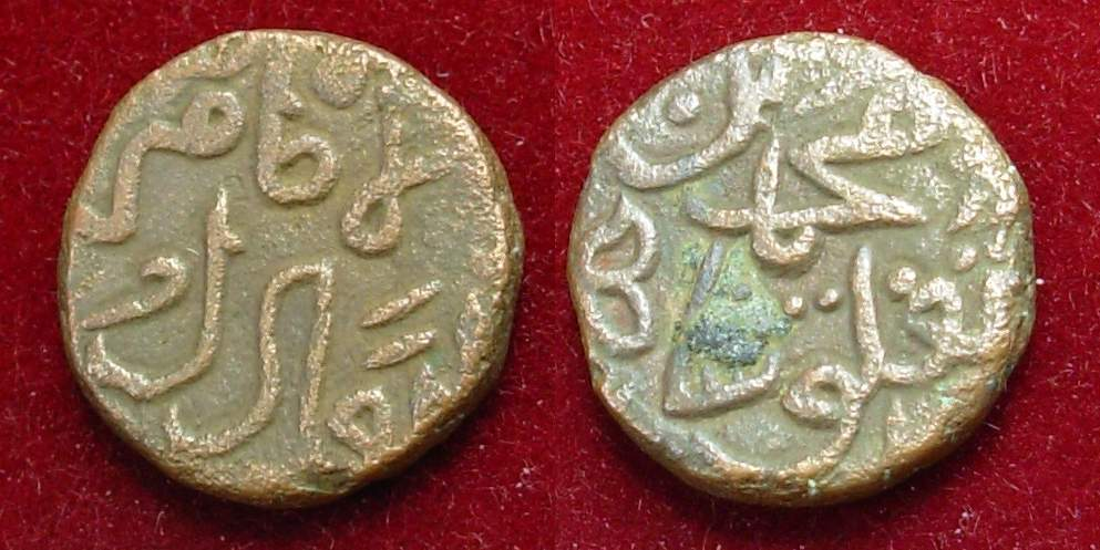 image from personal collection